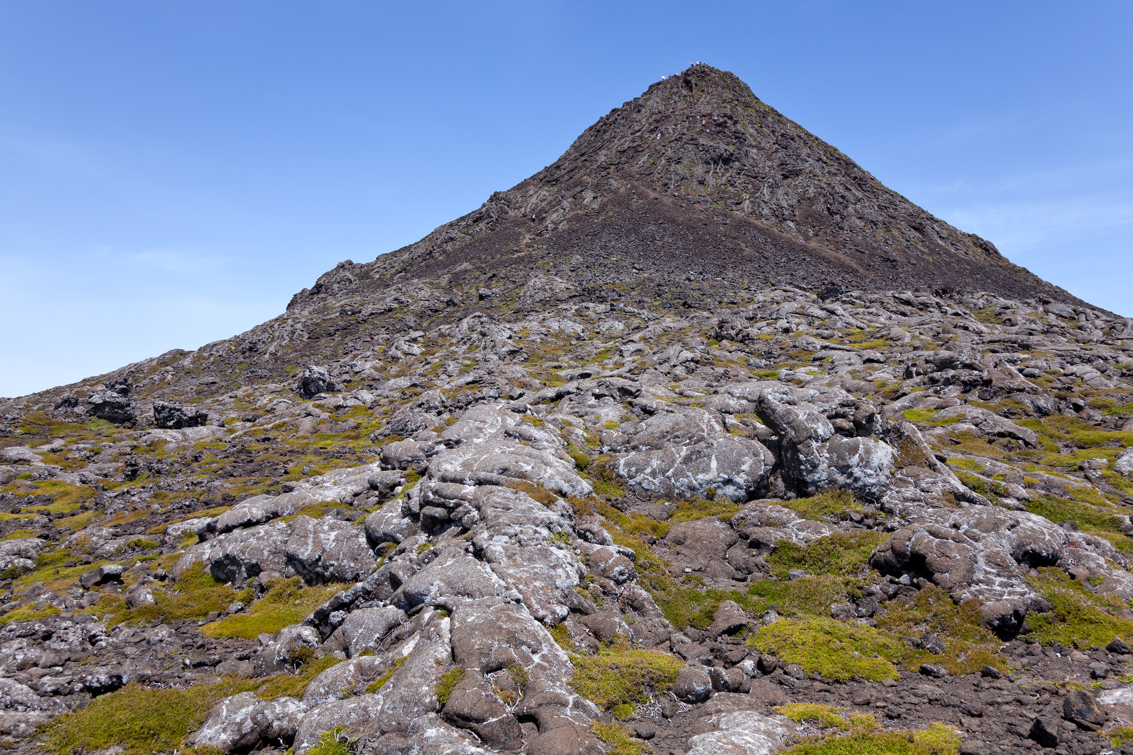 Mount Pico, Piquinho (summit), Pico Island, Azores (in the altitude of 2255 m)